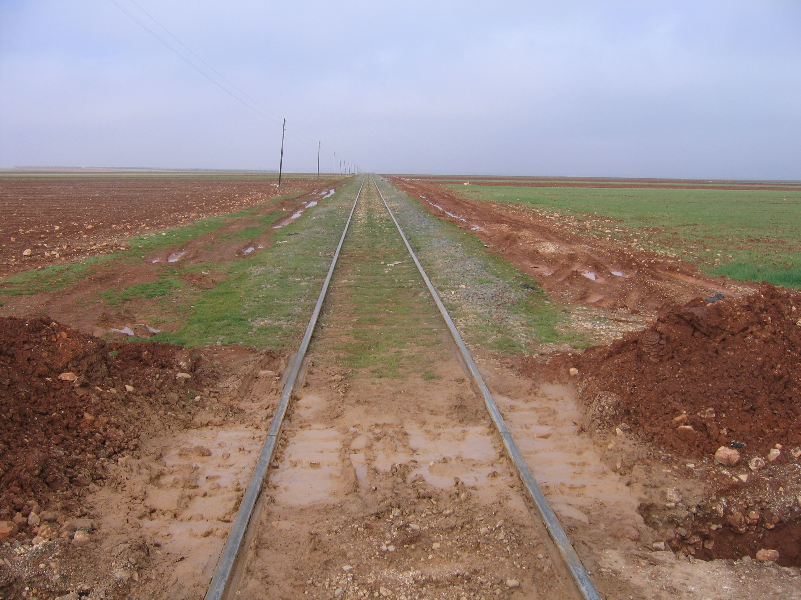 Bagdad Railway, northwest of Aleppo